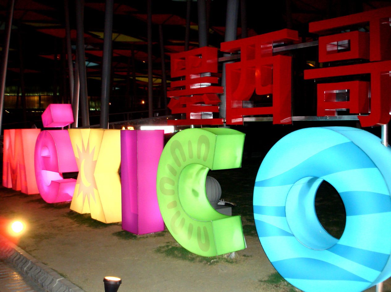 Night shot of the Mexico logo at Expo 2010 Shanghai